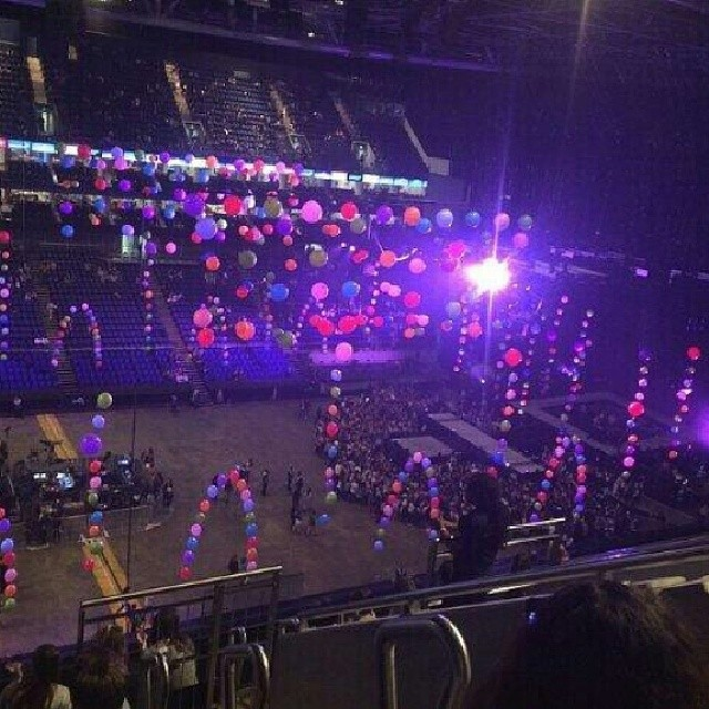 concert